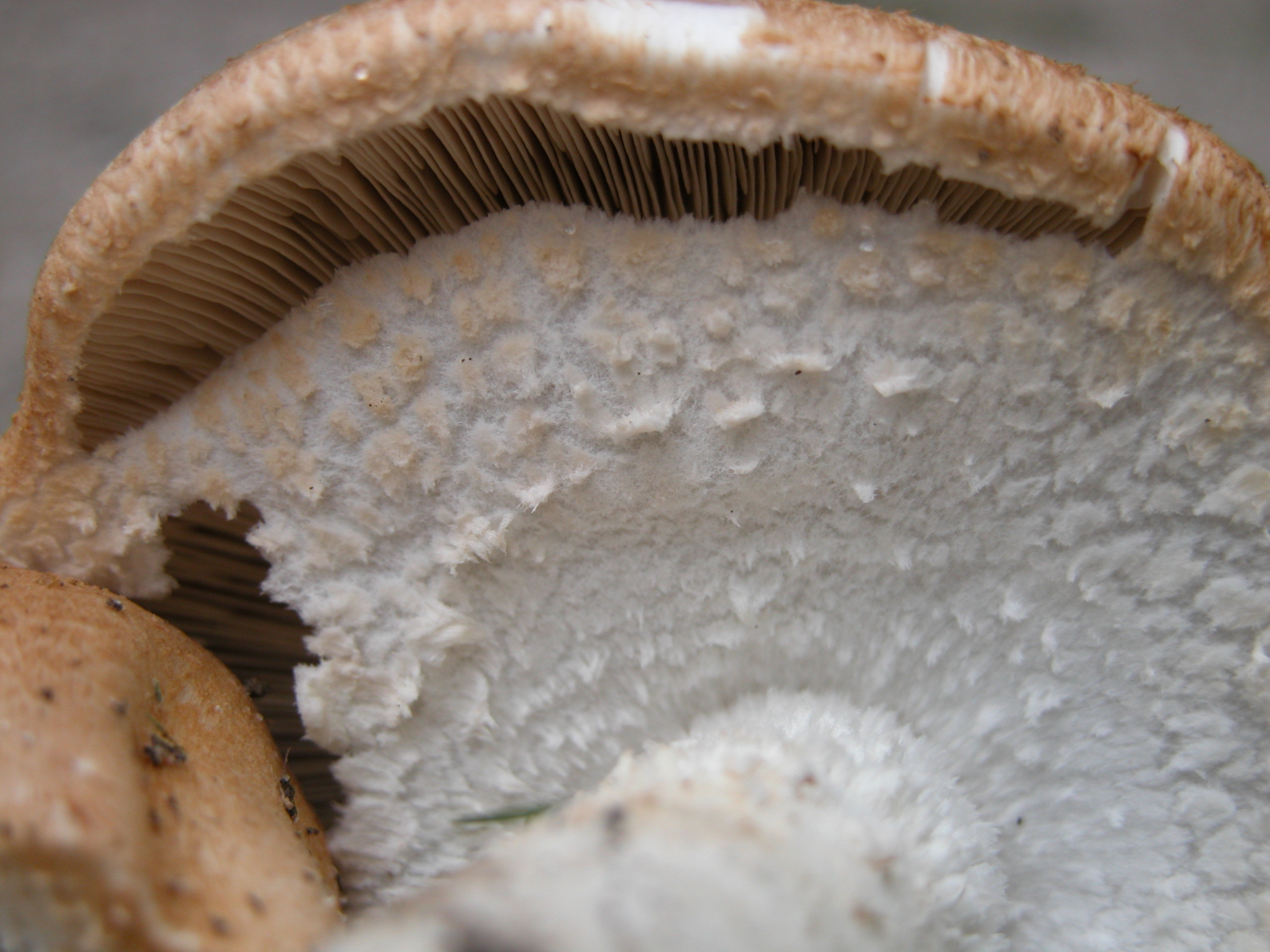 The gills and annulus of Agaricus subrufescens Peck. Specimen found in East Lansing, MSU campus, Ingham Co., Michigan, USA.